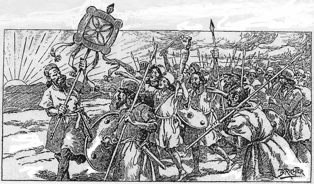 Kaveh Magazine Logo. It was publishing during WWI.